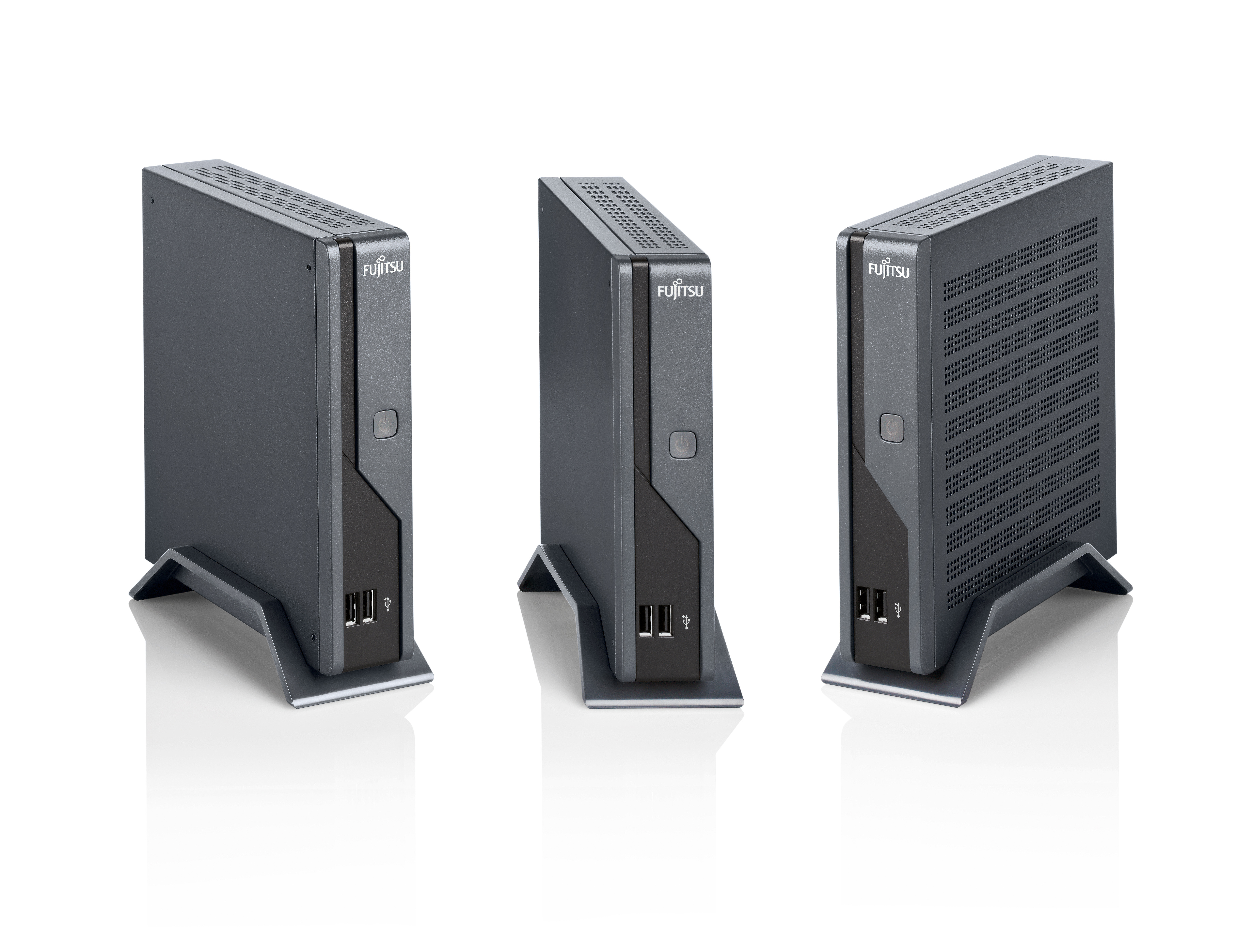 Three Fujitsu Futro S100 Thin Clients featruring the VIA Eden 1 watt processor.